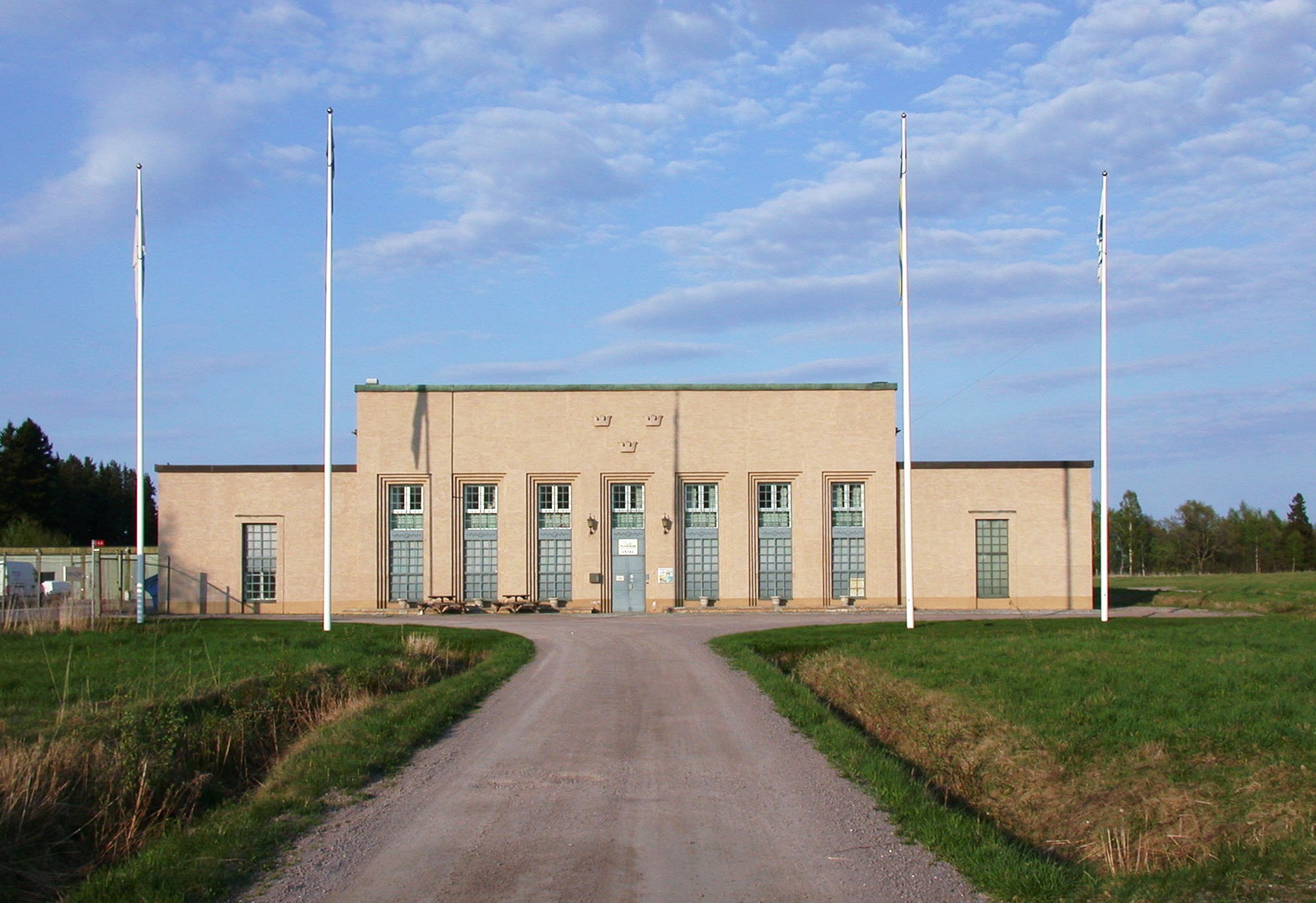 The old long wave radio station in Motala, Sweden.